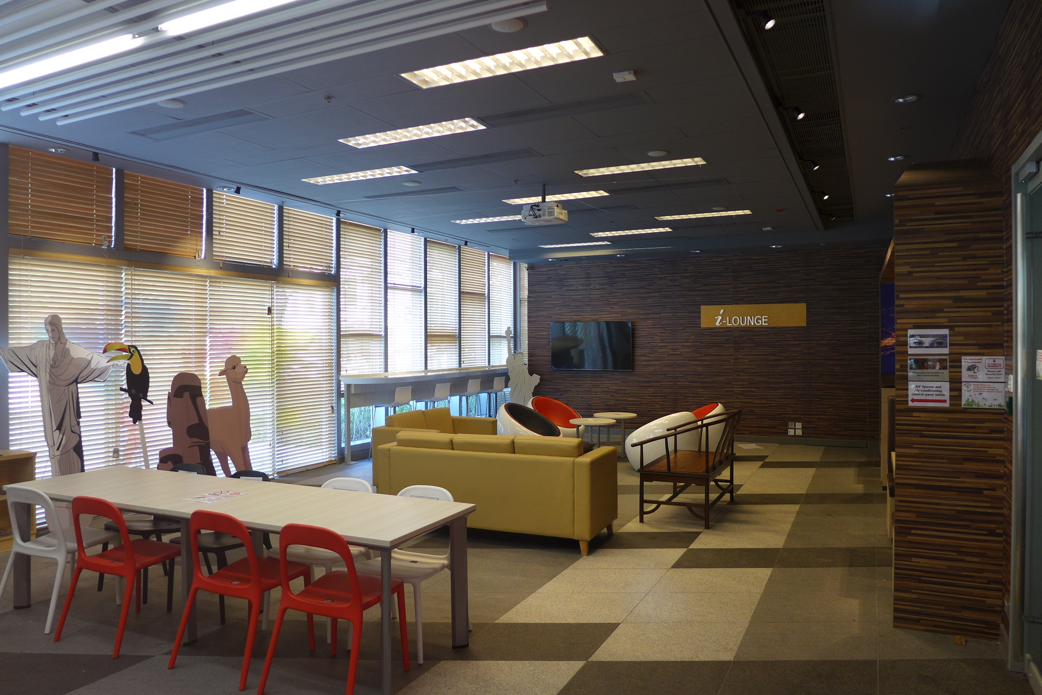 Yasumoto International Academic Park I lounge